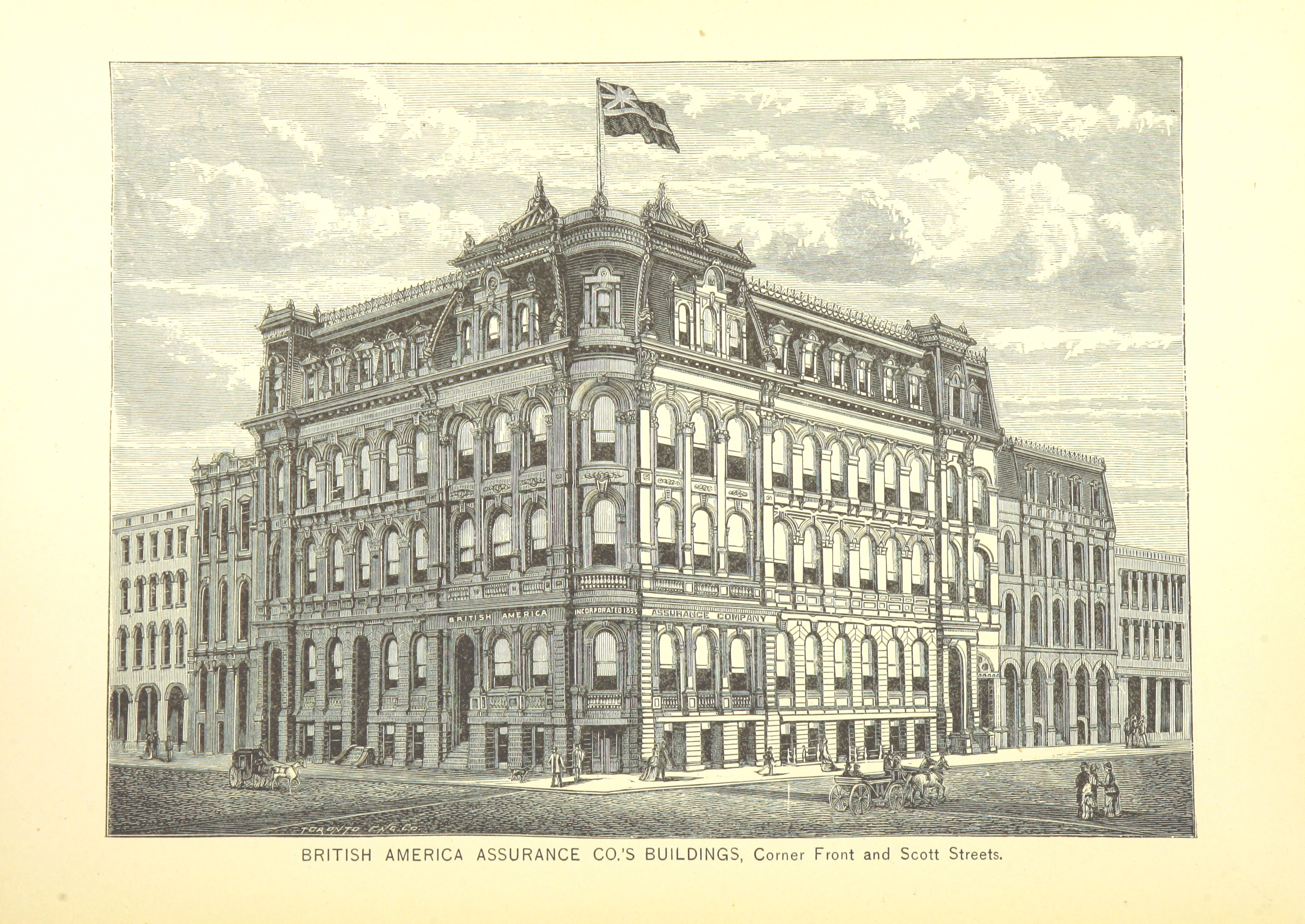 The British America Assurance Company building, corner of Front and Scott Streets, Toronto, Ontario, Canada.